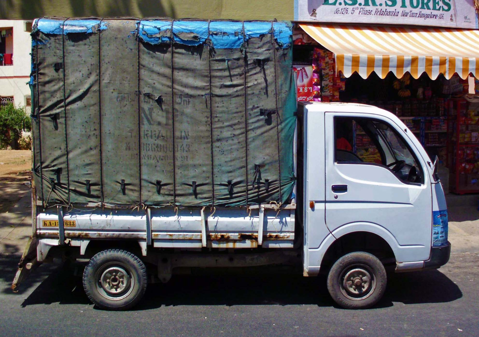 Tata Mini Ace, somewhere in Bangalore